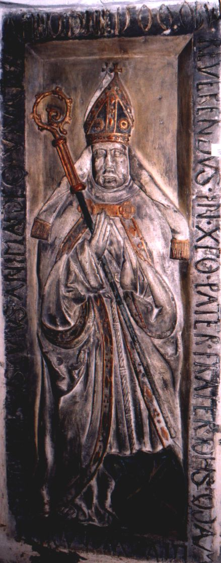 A tombstone of Jan Filipec in the church of Annunciation (the church of the former Franciscan friary) in Uherské Hradiště.